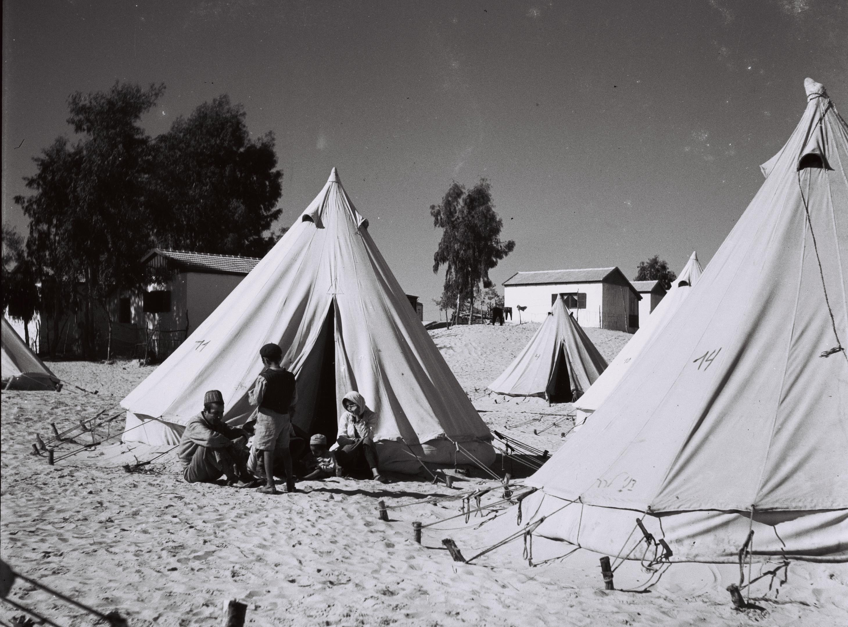 IMMIGRANTS FROM YEMEN LIVING IN TENTS IN THE EZRA UBITZARON QUARTER IN RISHON LEZION. עולים מתימן גרים באוהלים בשכונה חדשה בראשון לציון.